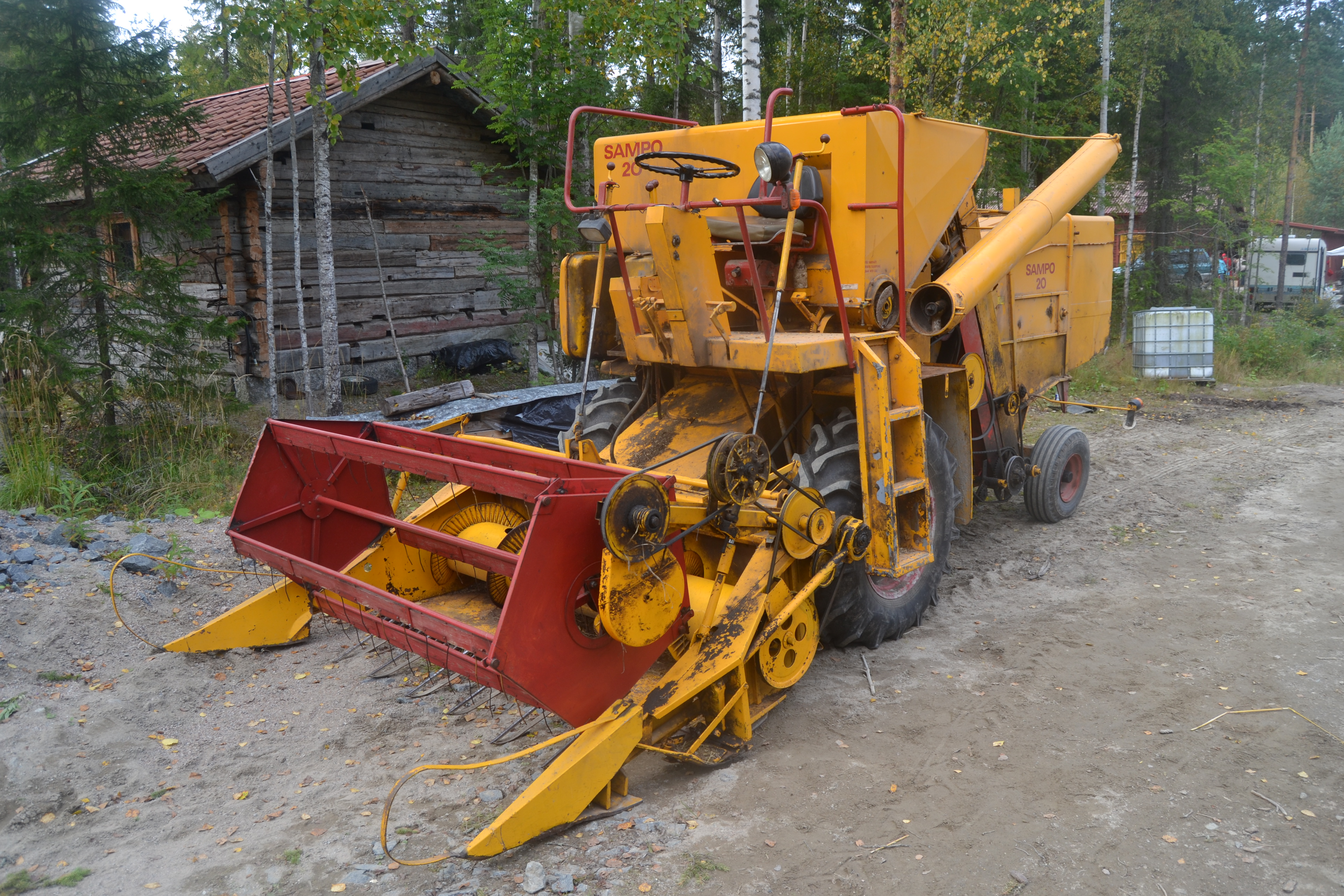 Sampo 20 combine